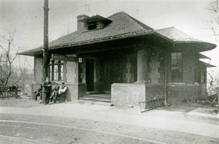 Waiting Room and Office, Rock Creek Railway, Chevy Chase Lake, designed by Lindley Johnson.